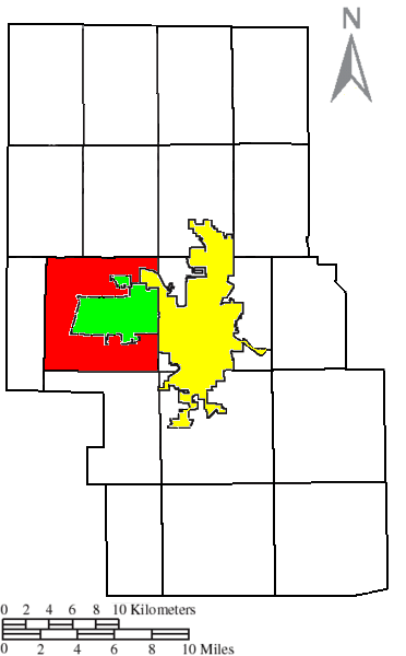 Made by the US Census and altered by myself to highlight the township